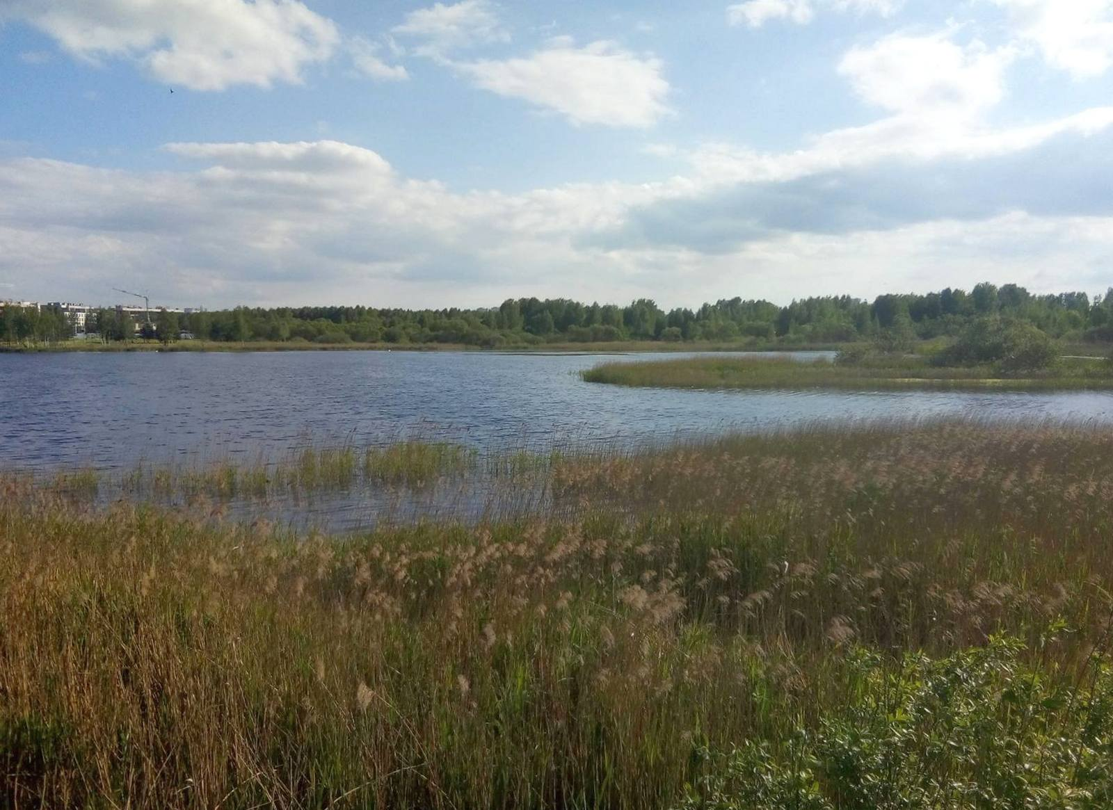 Liebiadziny pond in the Centralny district of Minsk (June 5, 2020). View of the Liebiadziny Nature Reserve from Pieramožcaŭ Avenue.